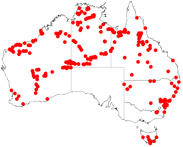 Places in Australia where Roger Charles Carolin collected specimens: data from Australasian Virtual Herbarium using collector="Carolin, R.C."